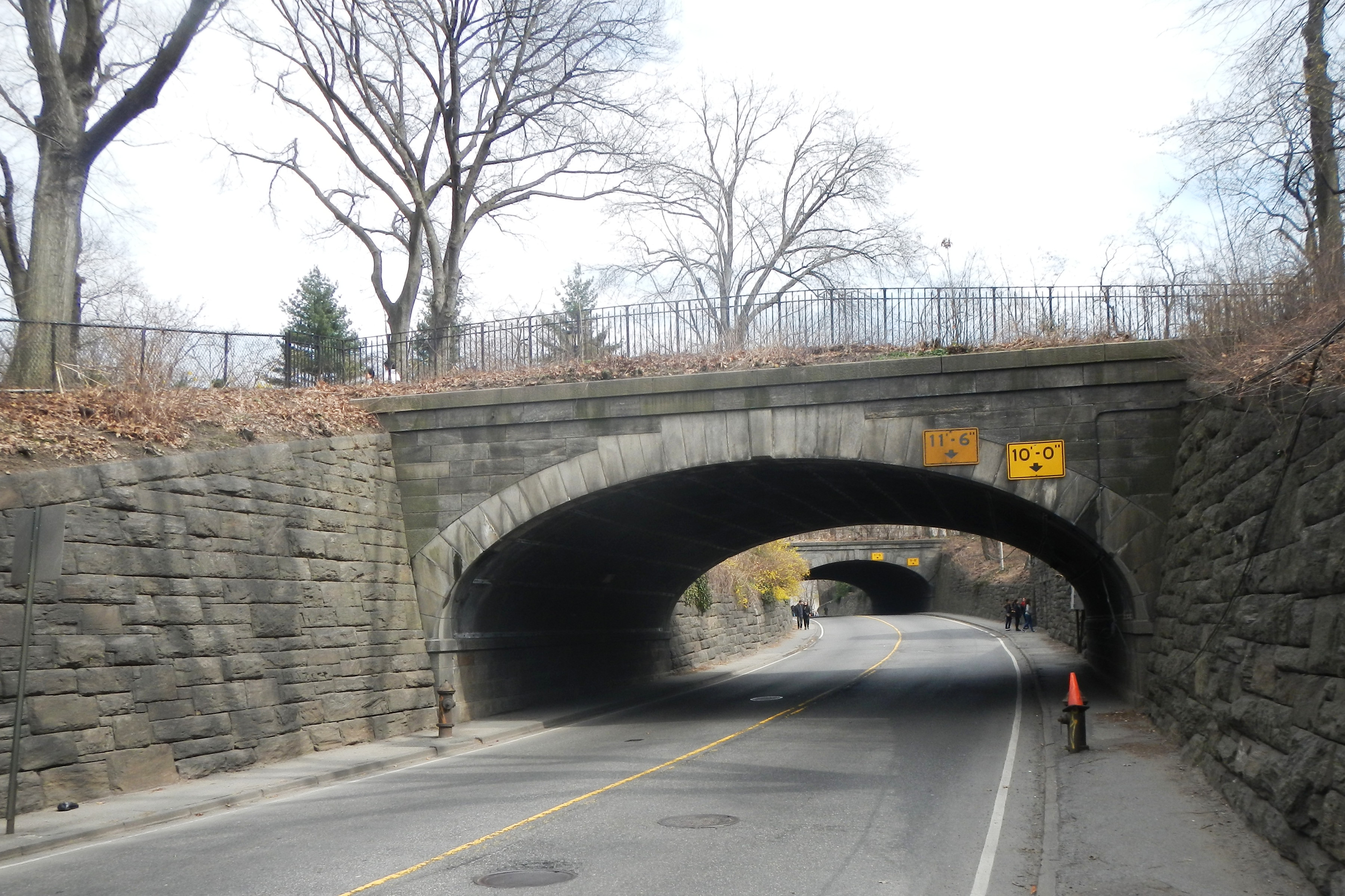 Looking east at stone arches on a cloudy afternoon. EXIF location is too far west due to photographer's error.